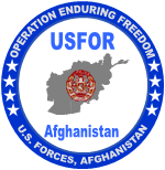 Logo of the United States Forces - Afghanistan.